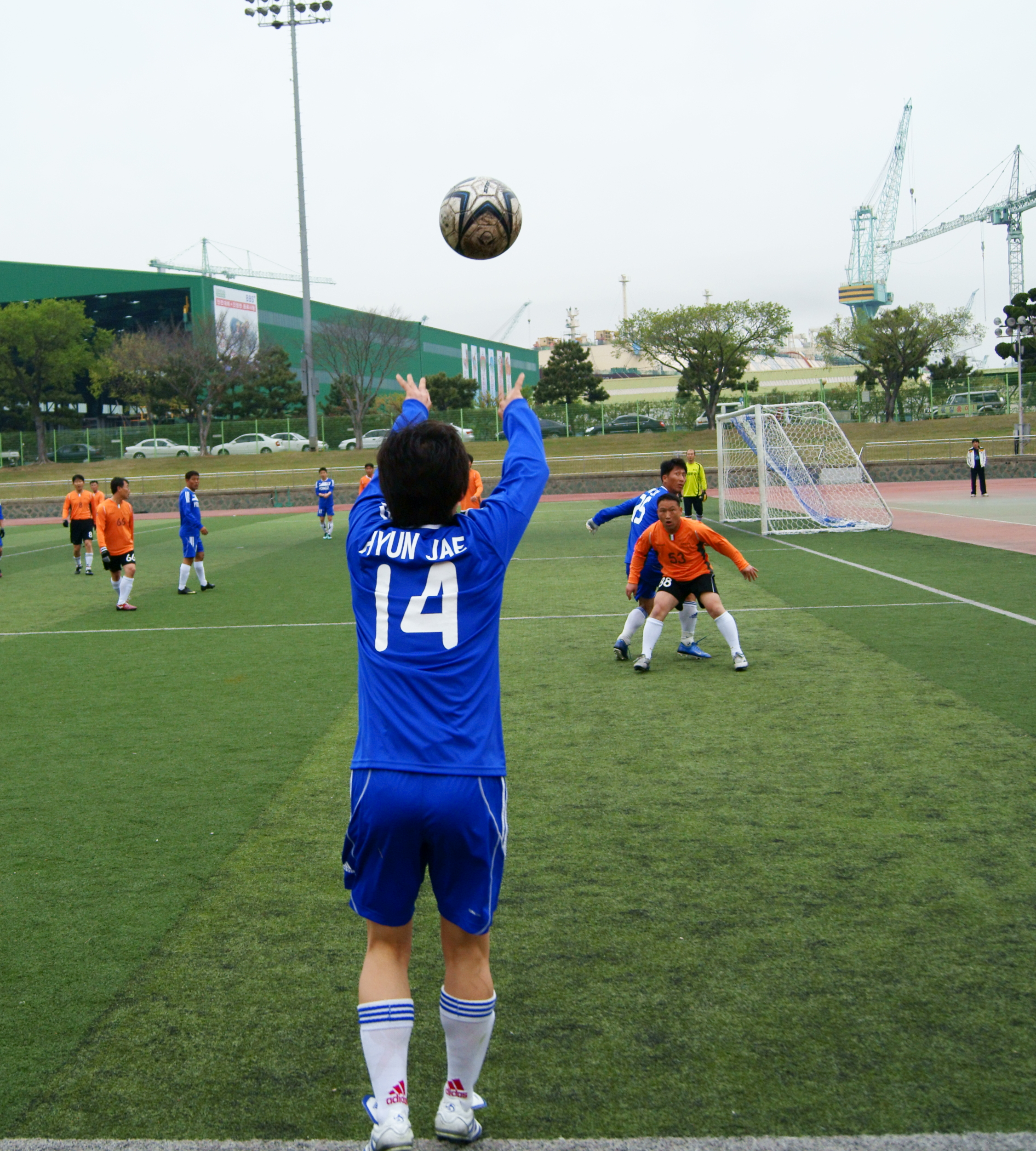 Soccer throw-in at Samsung Stadium - Geoje, South Korea.